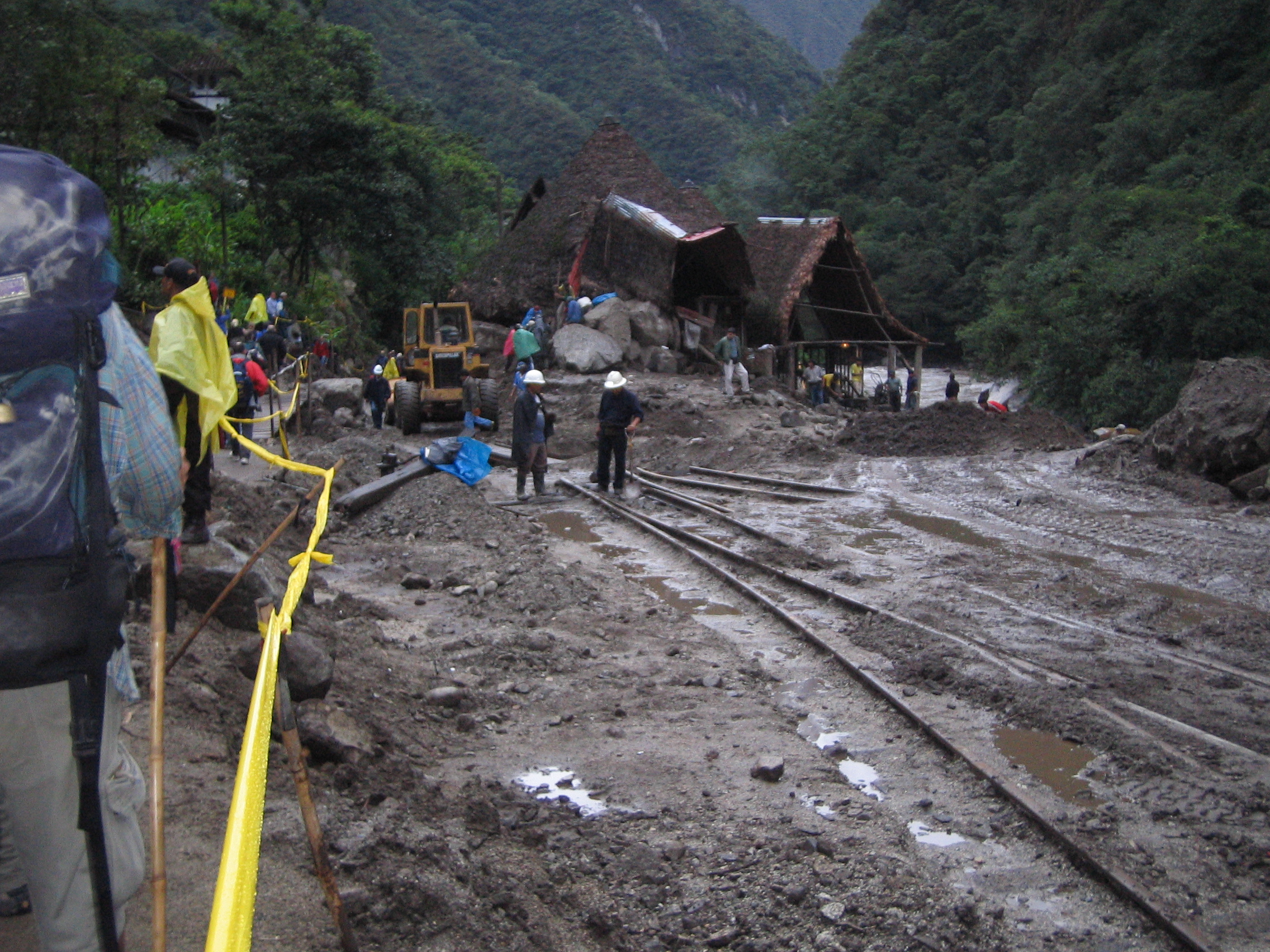 Results of the landslide in Aguas Calientes, Peru april 2004